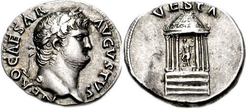 NERO. 54-68 AD. AR Denarius (18mm, 3.51 gm, 6h). Rome mint. Struck circa 65-66 AD. NERO CAESAR AVGVSTVS, laureate head right VESTA above, hexastyle temple with four steps; Vesta seated within facing, head left, holding patera and sceptre. RIC I 62; WCN 61; BMCRE 104; RSC 335.